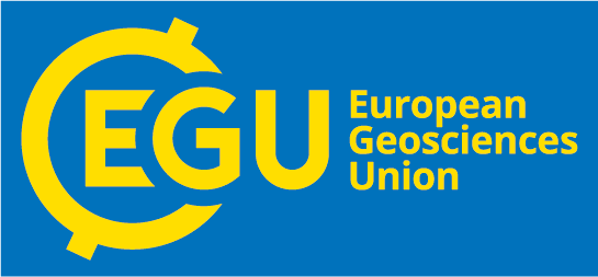 Logo of the European Geosciences Union